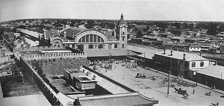 Zhengyangmen Railway Station in early 20th century